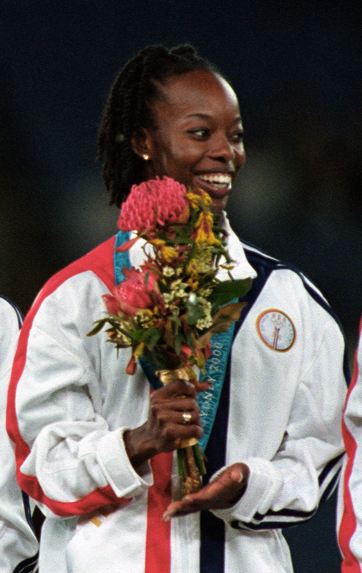 Monique Hennagan, September 30th, 2000 at the 2000 Sydney Olympic Games.